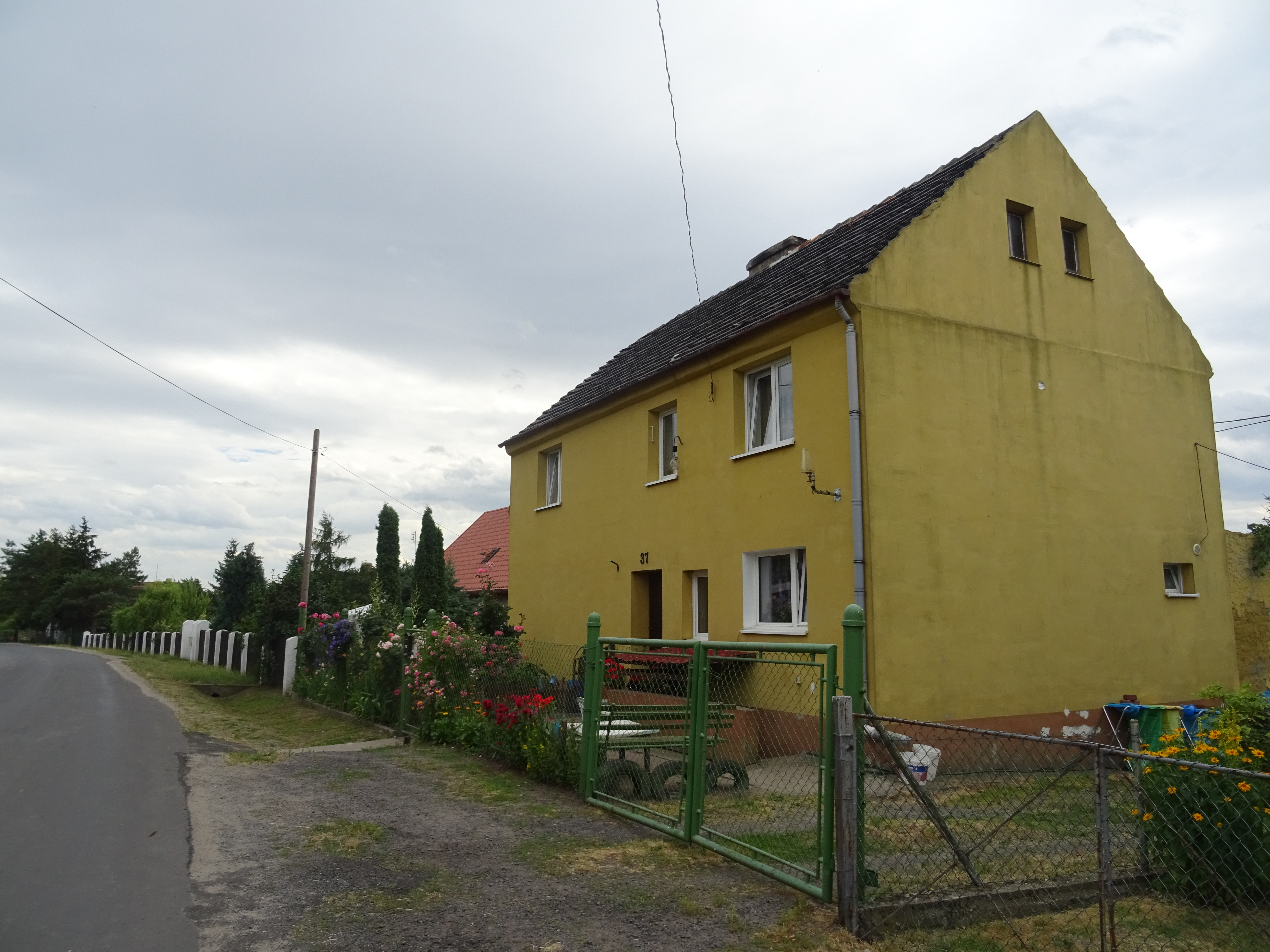 This photograph was created as a part of Wikiexpedition Lower Silesia, a project supported by Wikimedia Poland grant.